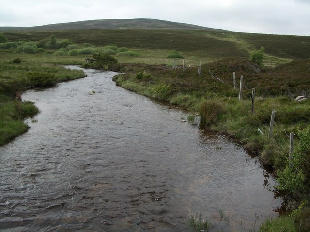 Dorback Burn, looking north from Lochindorb Taken from the bridge on the track leading to Terriemore Farm